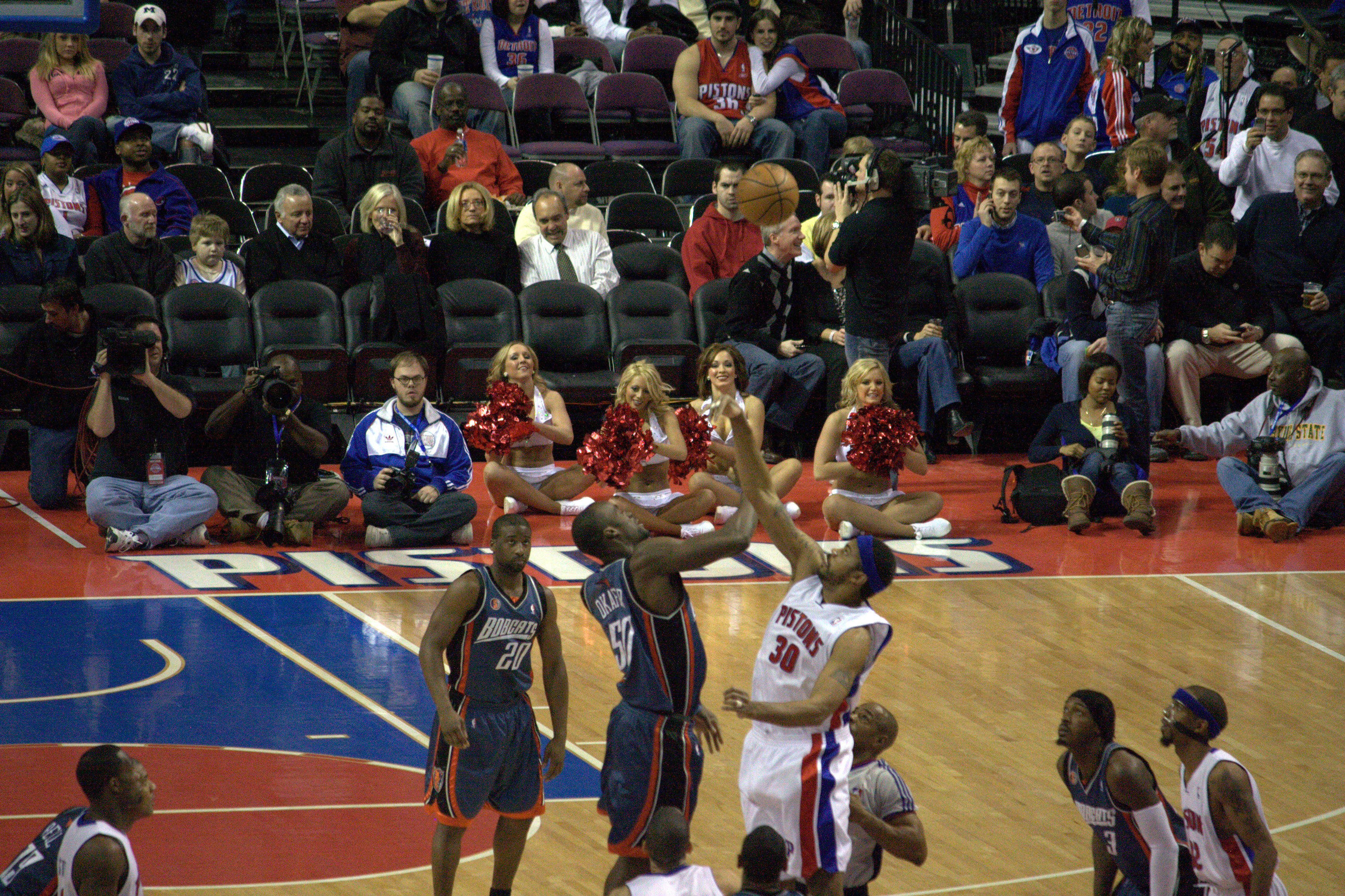 Tip-off between Emeka Okafor of the Charlotte Bobcats and Rasheed Wallace of the Detroit Pistons. Raymond Felton (20), Gerald Wallace and Richard "Rip" Hamilton look on.